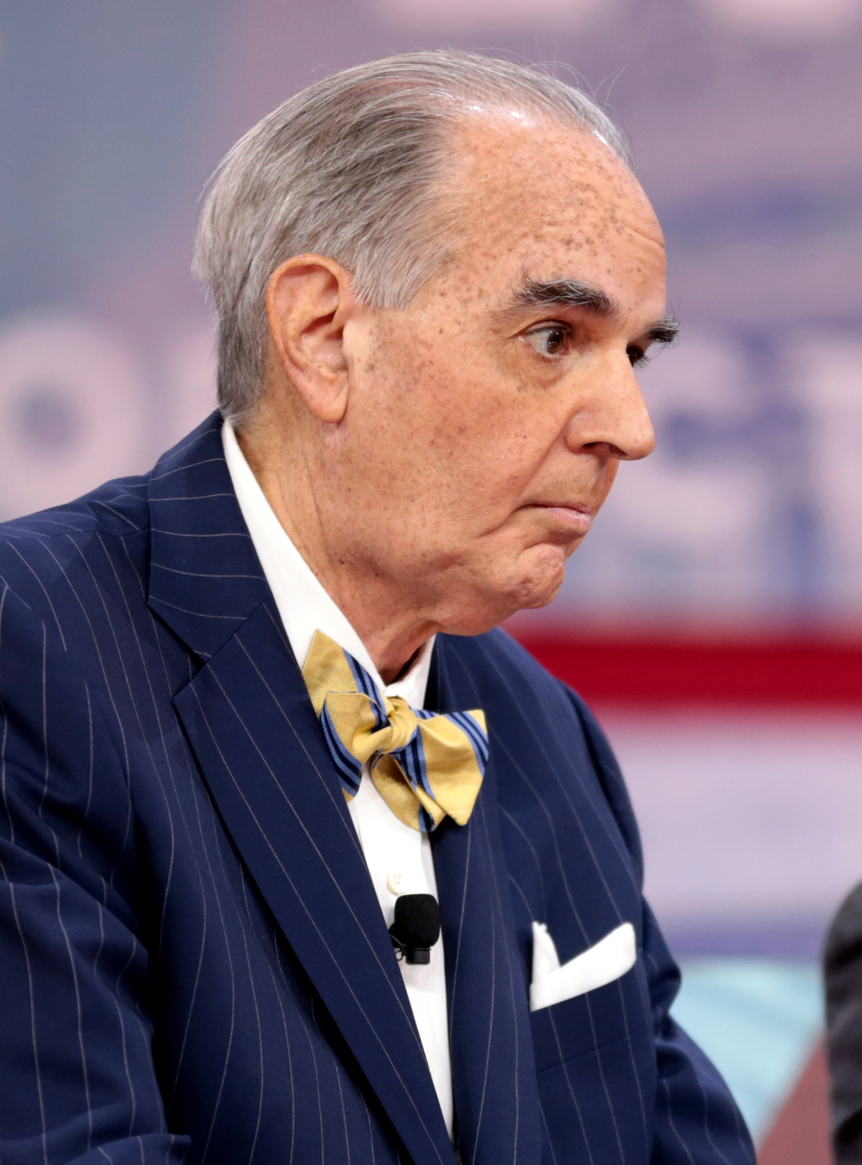 John Batchelor speaking at the 2018 CPAC in National Harbor, Maryland.